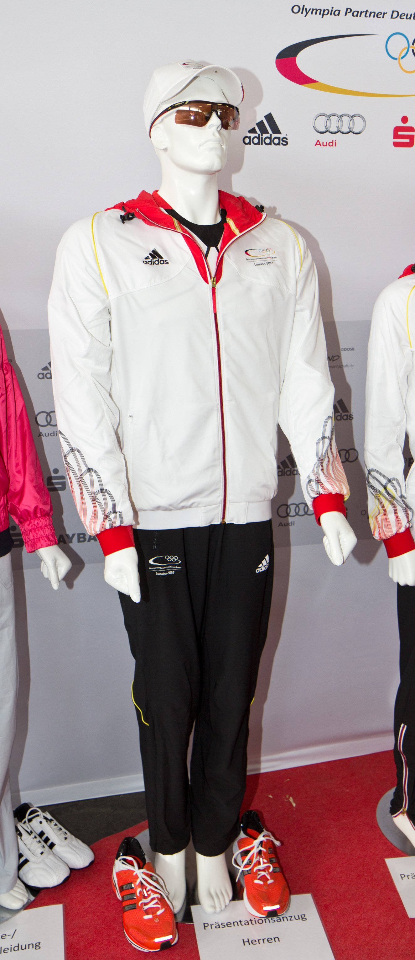 Outfitting the Olympic team of Germany 2012